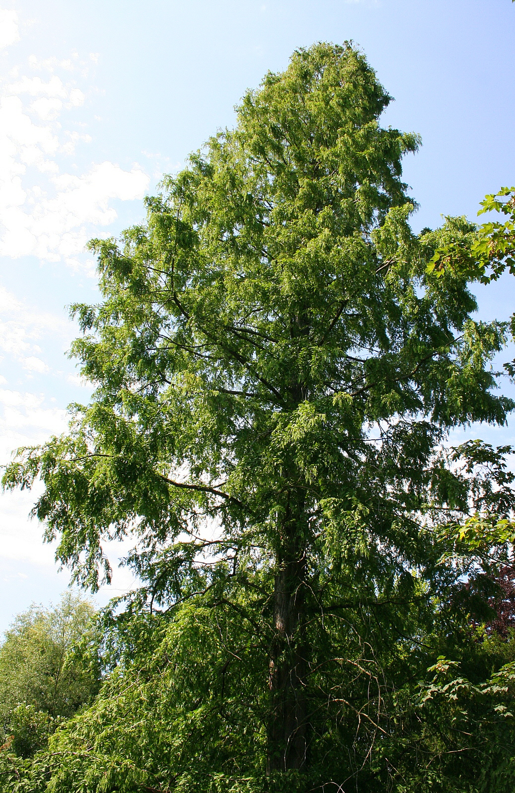 Dawn Redwood (Metasequoia glyptostroboides).